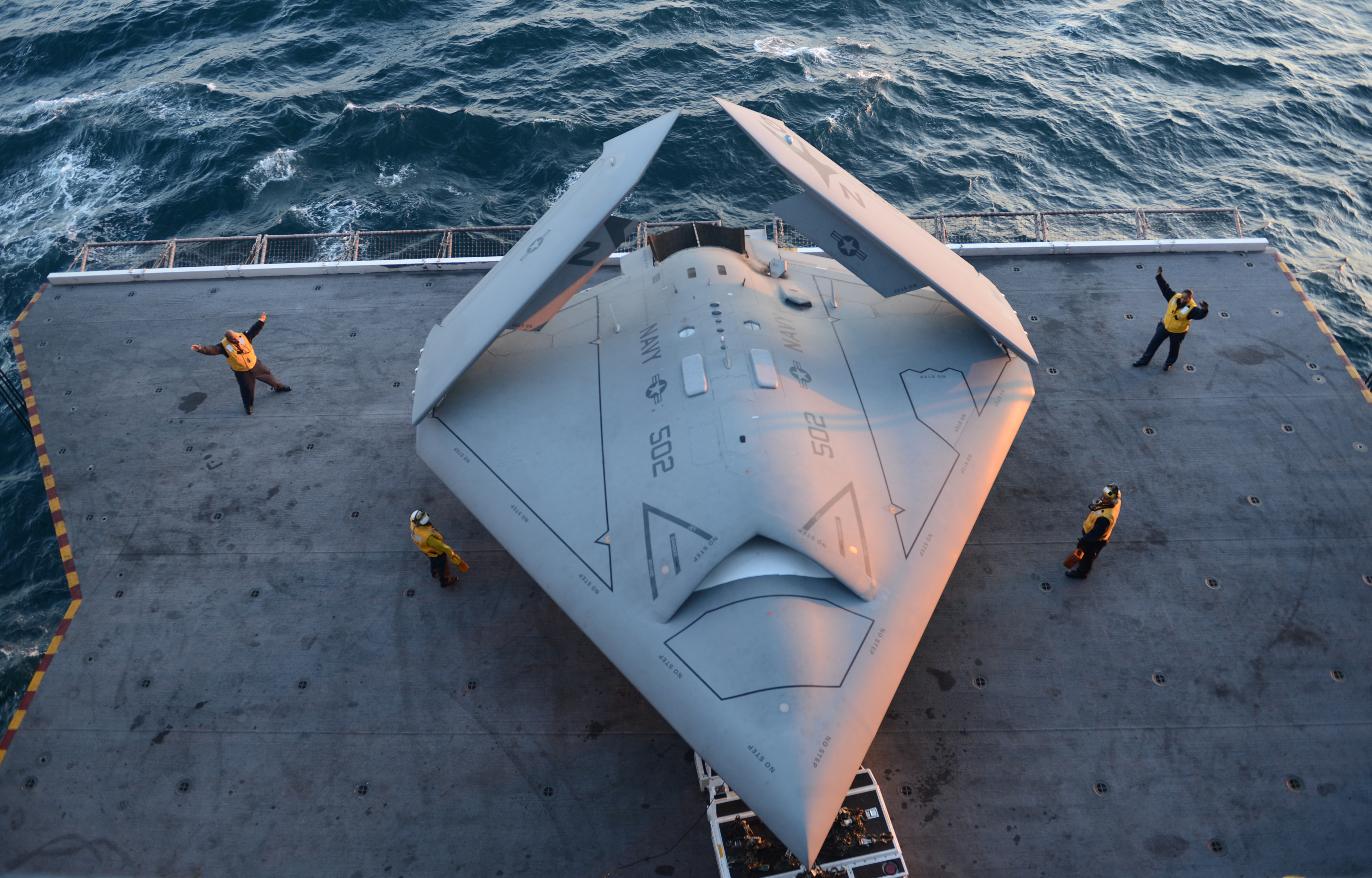 U.S. Sailors move a U.S. Navy X-47B Unmanned Combat Air System demonstrator aircraft onto an aircraft elevator aboard the aircraft carrier USS George H.W. Bush (CVN 77) May 14, 2013, in the Atlantic Ocean. The George H.W. Bush was the first aircraft carrier to successfully catapult-launch an unmanned aircraft from its flight deck.